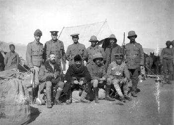 'Ray, O'Connor, Dunlop, Igybilden, Col. Hogge, Waddell, Walsh, Younghusband, G. O. C., Brotherton. The staff and others at Phari Jong in January 1904.' Photograph possibly taken by G. I. Davys. Younghusband is seated in the centre of the photograph, wearing the fur coat and hat.